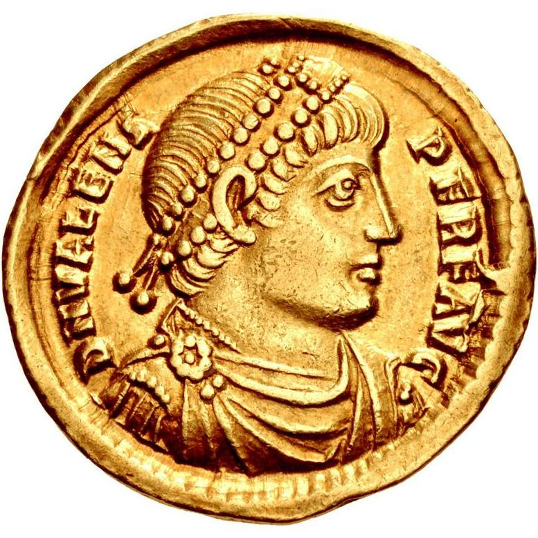 Valens. AD 364-378. AV Solidus (21.5mm, 4.42 g, 6h). Antioch mint, 3rd officina. Struck AD 364. Pearl-diademed, draped, and cuirassed bust right / Valens standing right, holding labarum with cross on banner and Victory on globe; cross to left; *ANTΓ*. RIC IX 2d.xxxvii.3; Depeyrot 20/2. Reddish tone. Good VF.